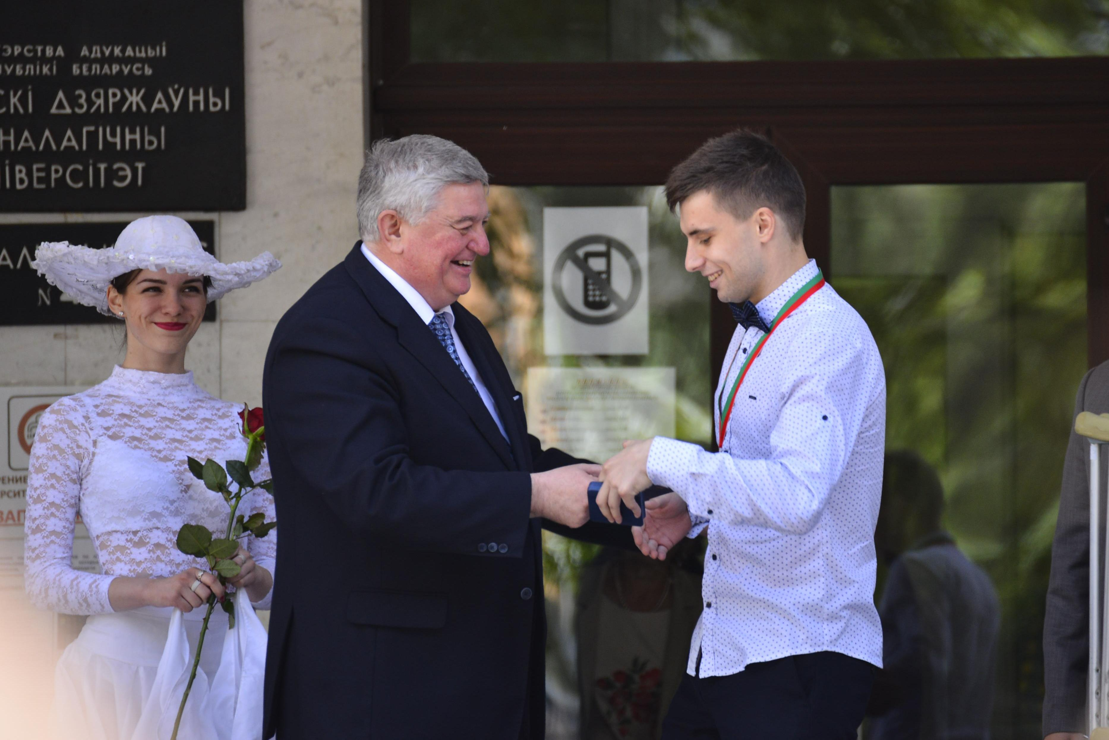 Rector of BSTU, Professor I.V. Voitov awards the graduate of the university medal